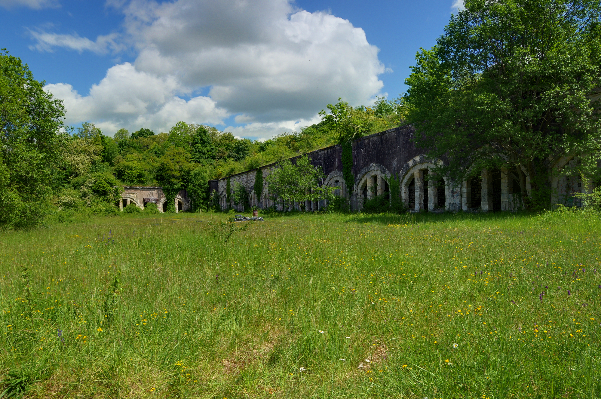 Bois d'Oye fortifications (HDR).